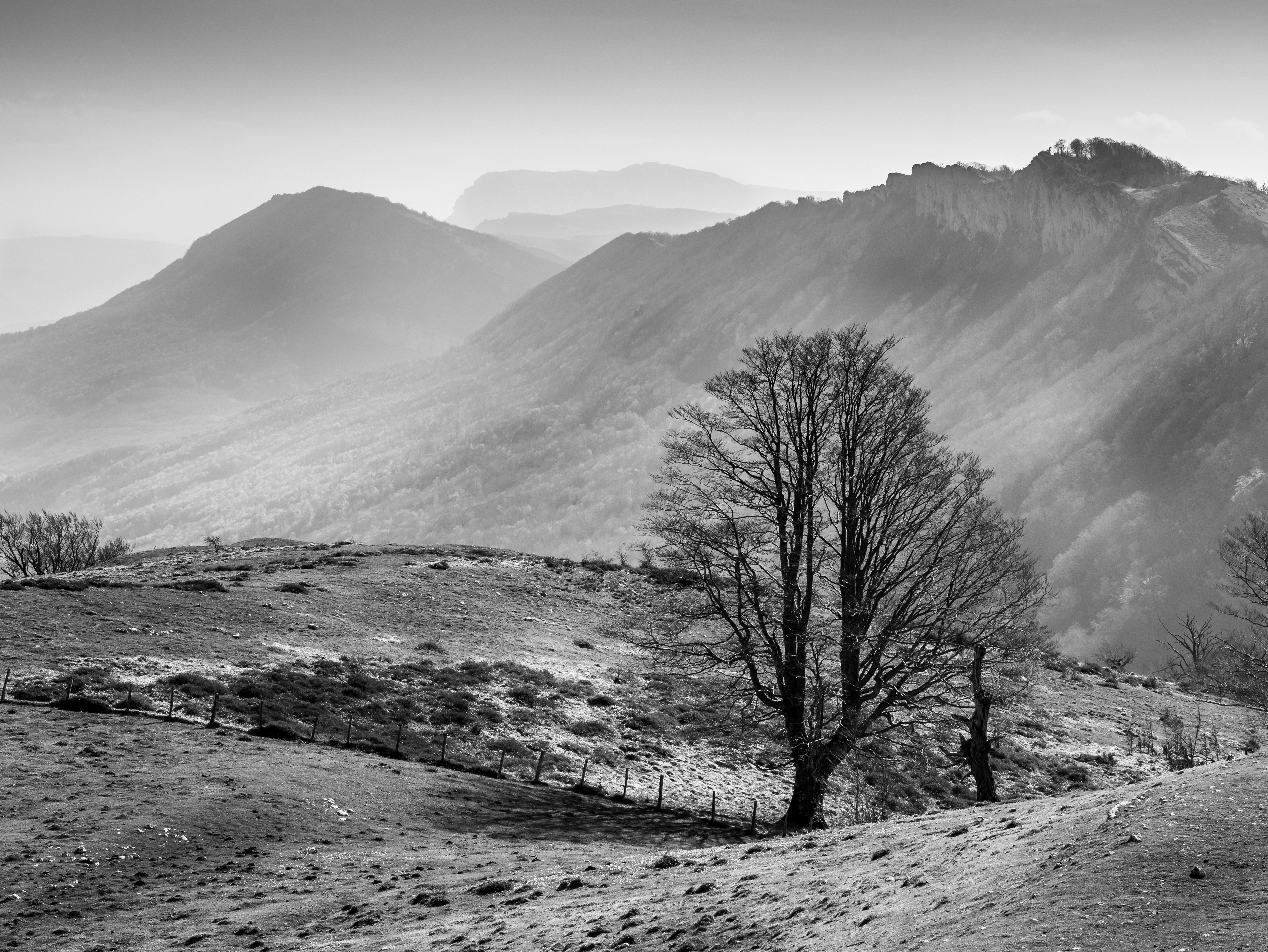 Landscape of the Entzia mountain range; a beech, haze. Álava, Basque Country, SpainEuskara: Entzia eta Urbasaren ikuspegia; pago bat, eta lainoa. Araba eta Nafarroa, Euskal Herria